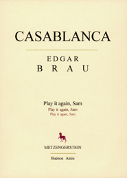 Casablanca, first Spanish edition. METZENGERSTEIN Ediciones. Buenos Aires.